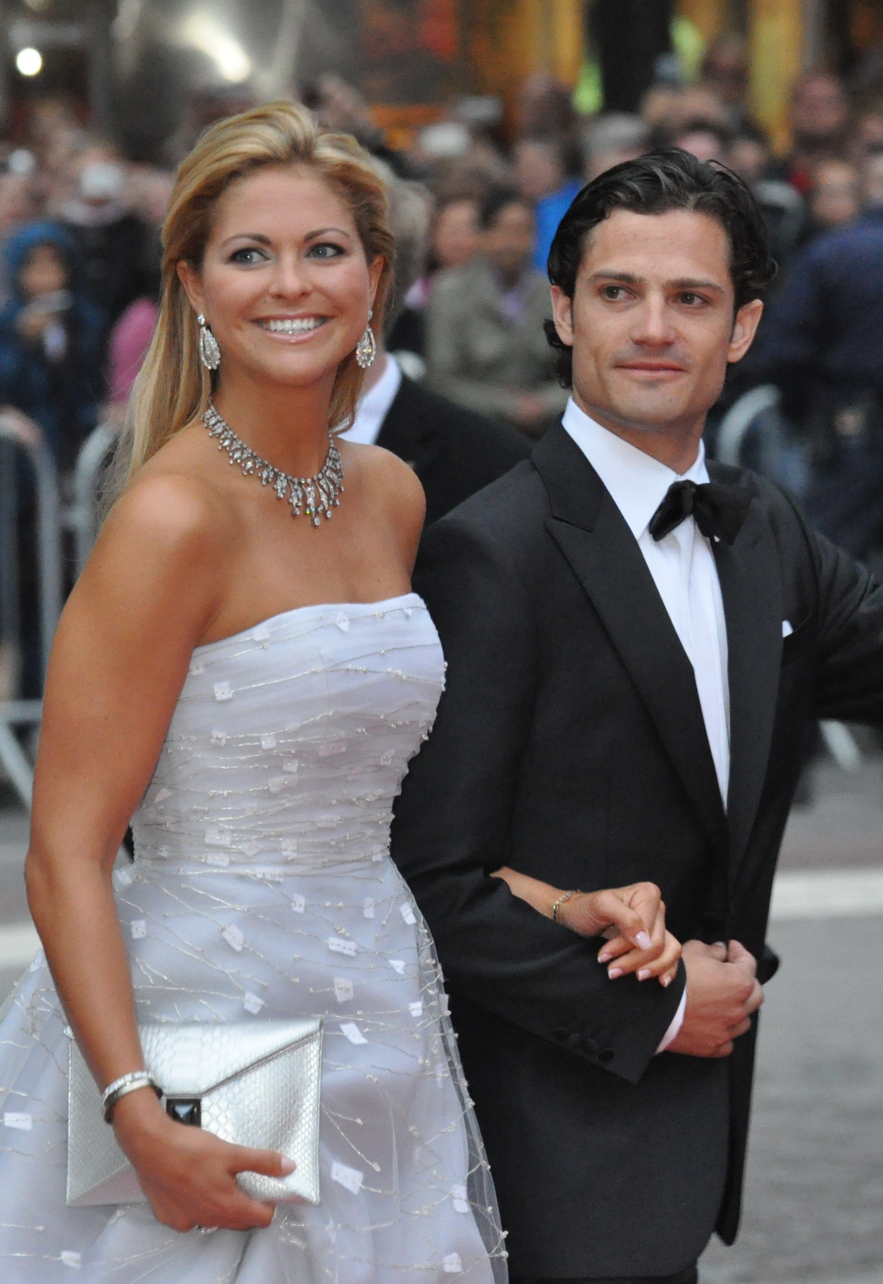 Wedding of Victoria, Crown Princess of Sweden, and Daniel Westling; Arrival of members for the Gouvernment and Swedish and foreign guests of hounour to the Riksdag's Gala Performance at Konserthuset: Princess Madeleine and Prince Carl Philip